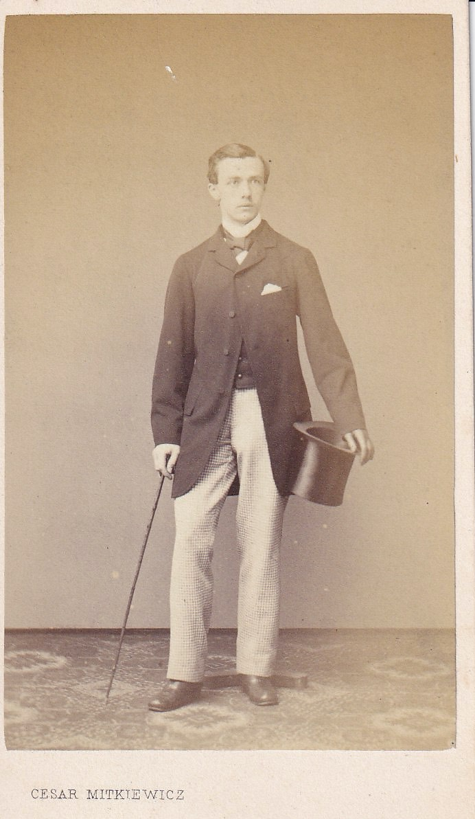 Jules Van Dievoet, lawyer